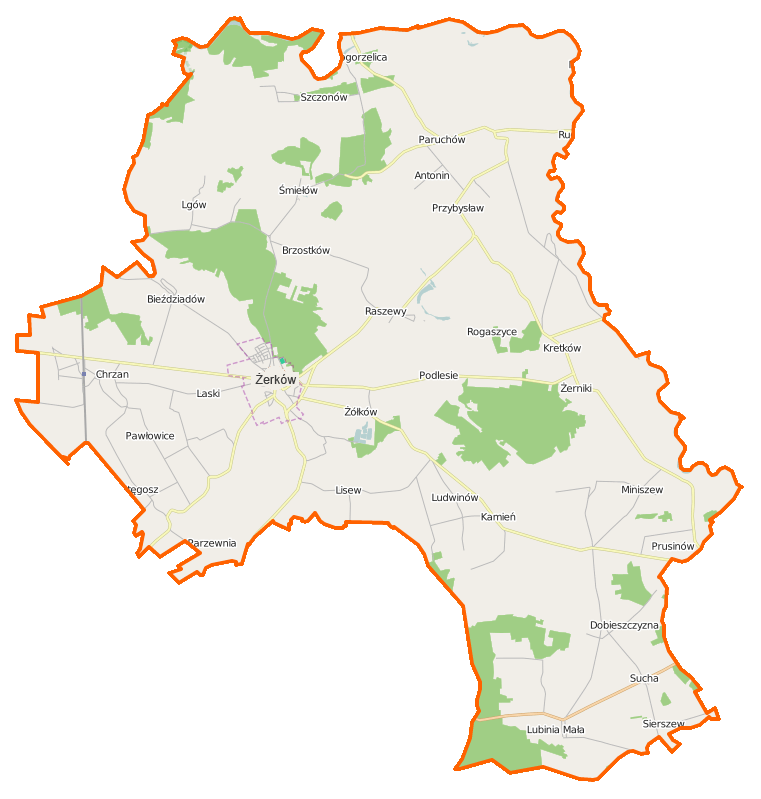 Map of Gmina Żerków, Poland This map of Żerków (gmina) was created from OpenStreetMap project data, collected by the community. This map may be incomplete, and may contain errors. Don't rely solely on it for navigation. Border coordinates52.148717.4689←↕→17.730551.9796